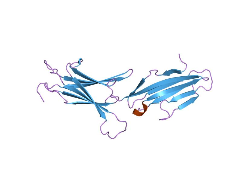 Cartoon representation of the molecular structure of protein registered with 1gsm code.